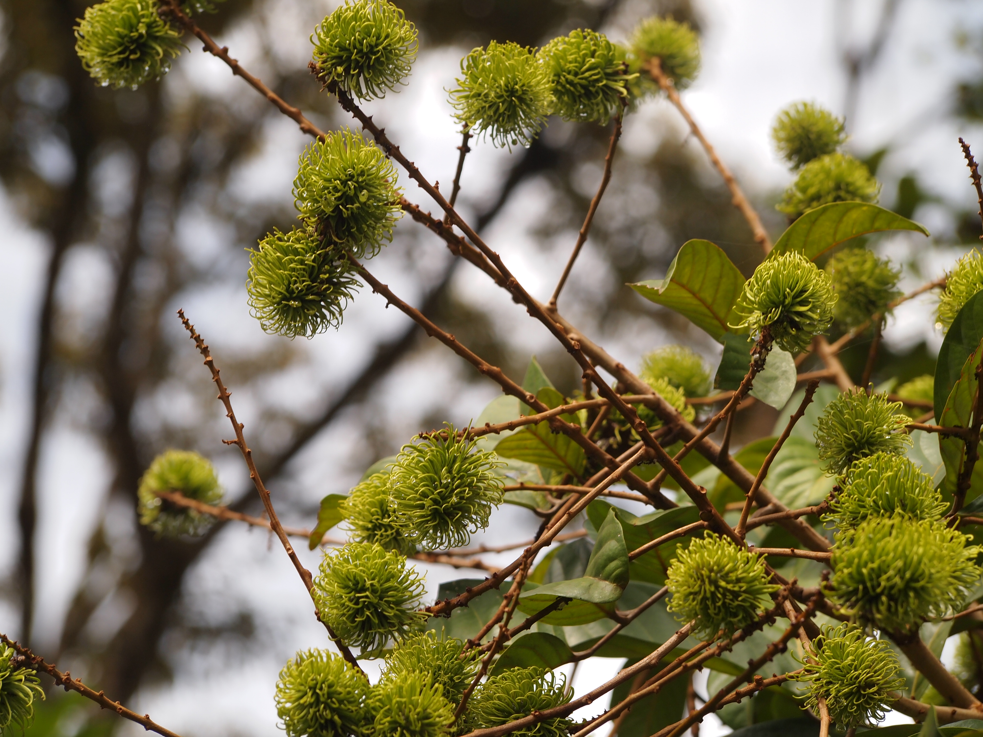 The young fruits of Nephelium Lappaceum L. found in Malaysia